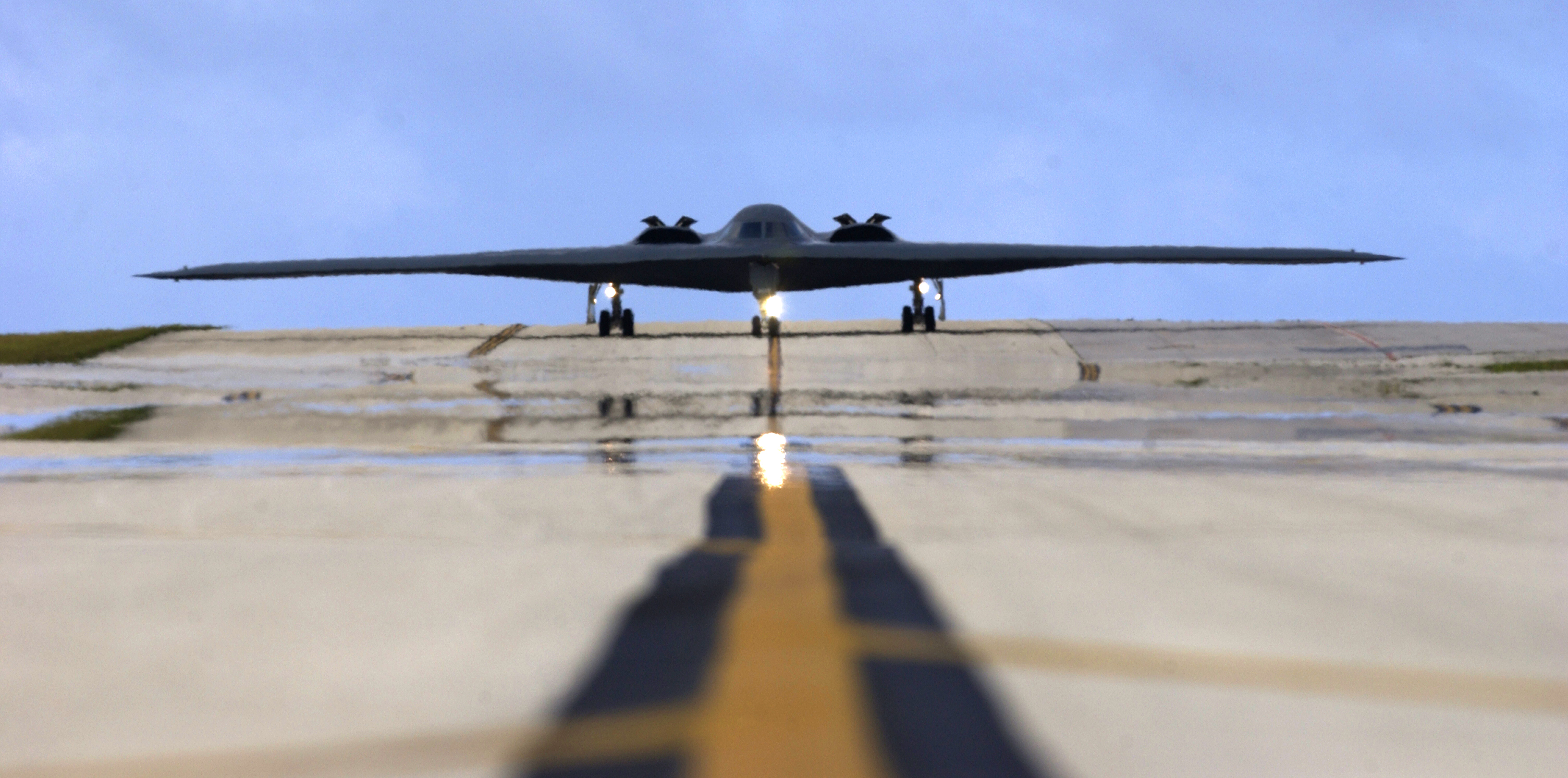 A B-2 Spirit taxis down the flightline April 25 at Andersen Air Force Base, Guam. B-2 Spirits and 270 Airmen from the 393rd Expeditionary Bomb Squadron at Whiteman AFB, Mo., are at Andersen as part of Pacific Command's continuous bomber presence in the Asia-Pacific region. (U.S. Air Force photo/Staff Sgt. Bennie J. Davis III)